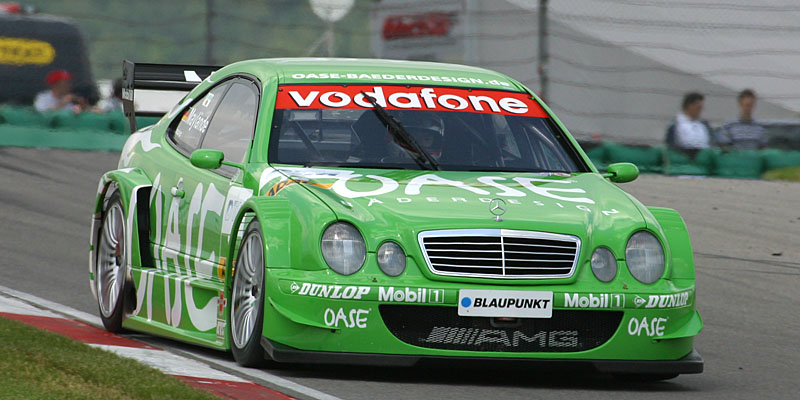 Bernd Mayländer, Mercedes, DTM on Sachsenring Circuit.